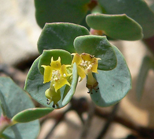 Euphorbia brachycera on the North Loop trail east of Mummy Mountain, Spring Mountains, southern Nevada (elev. about 2800 m)